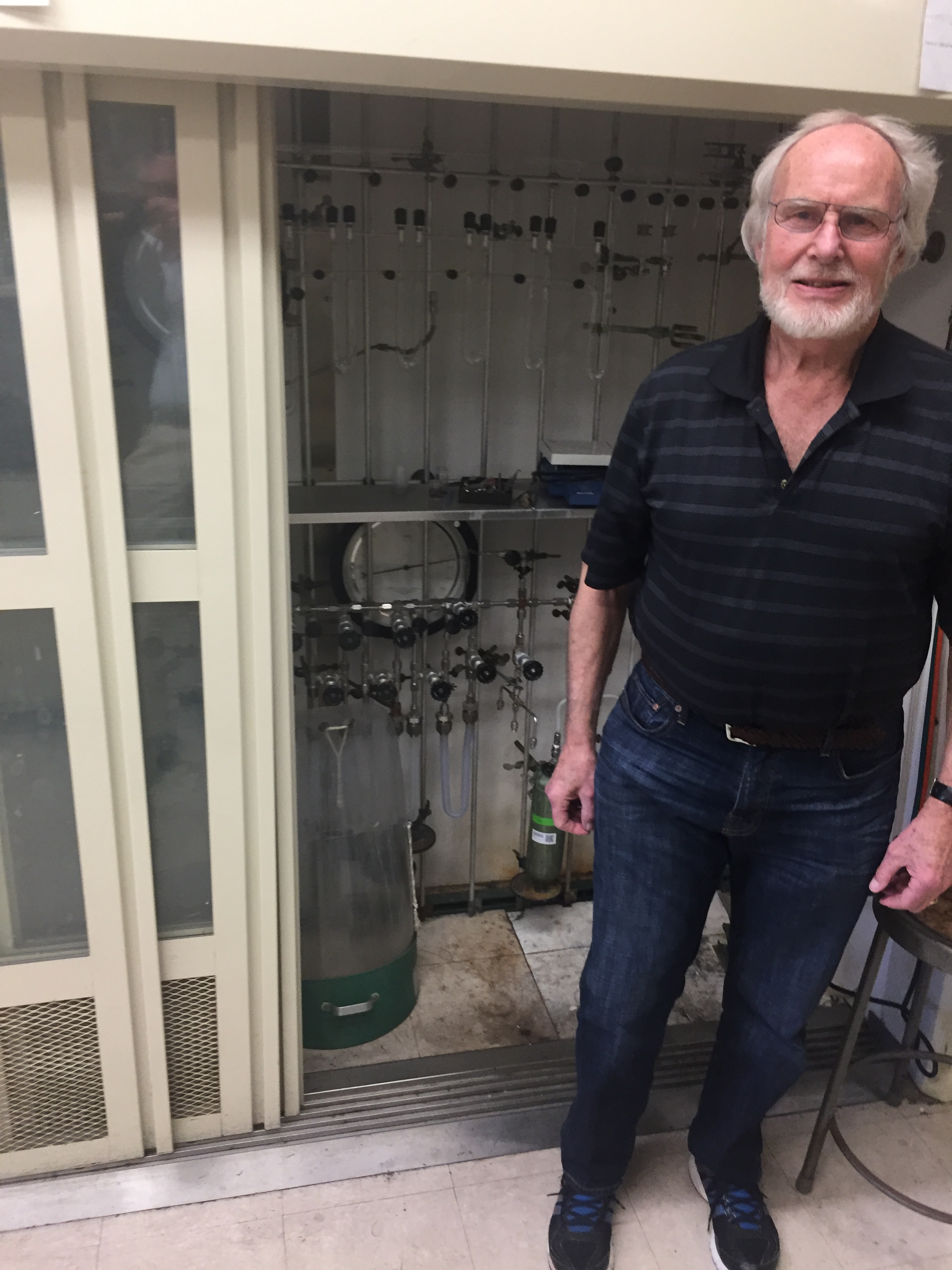 Image of Karl Christe in his lab at USC